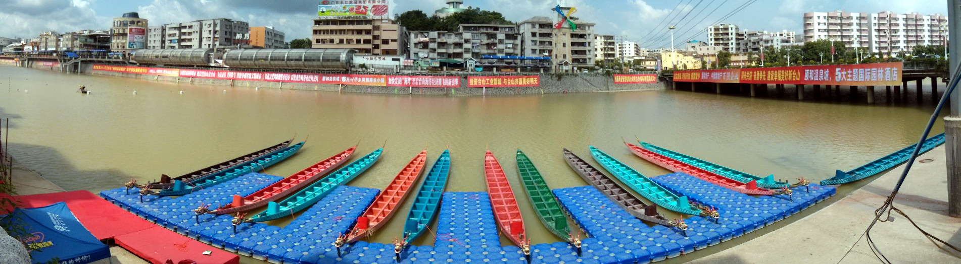 Jiangmen, Taishan, Taicheng - Dragon Boat Races at Taicheng River (Tai cheng he) near Di Wang Gang Chang shopping mall